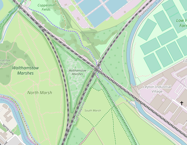 The location in Walthamstow, London of the disused Hall Farm Curve railway (currently existing as a footpath curving from the southeast to northeast corner). This map may be incomplete, and may contain errors. Don't rely solely on it for navigation.